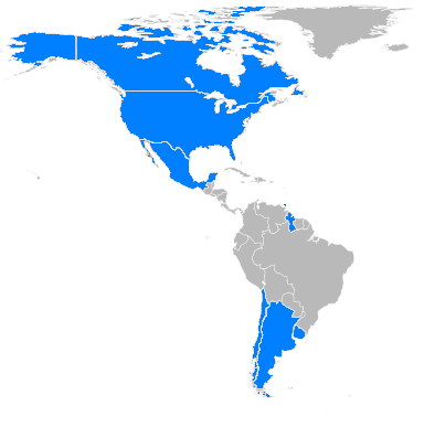 Participants of 2013 Women's Pan American Cup